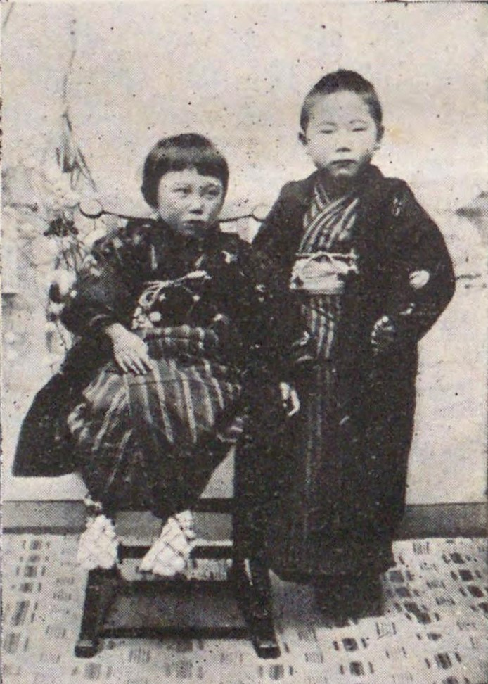 Miyazawa Kenji (6 year old) and Toshi, his younger sister.